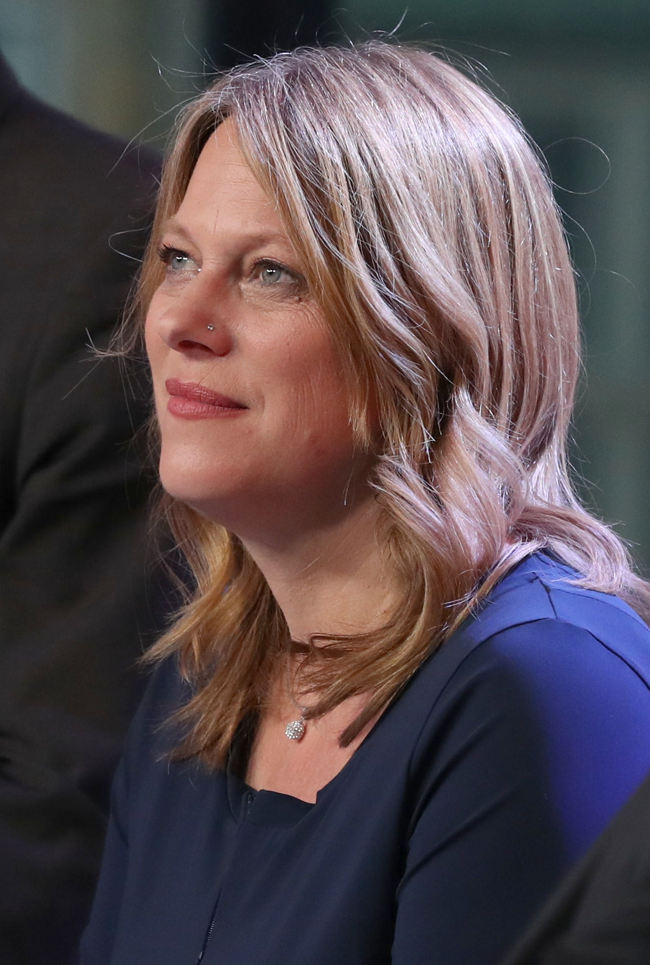 Election night Bürgerschaft of Bremen 2019: Maike Schaefer (Büdnis 90/Die Grünen)